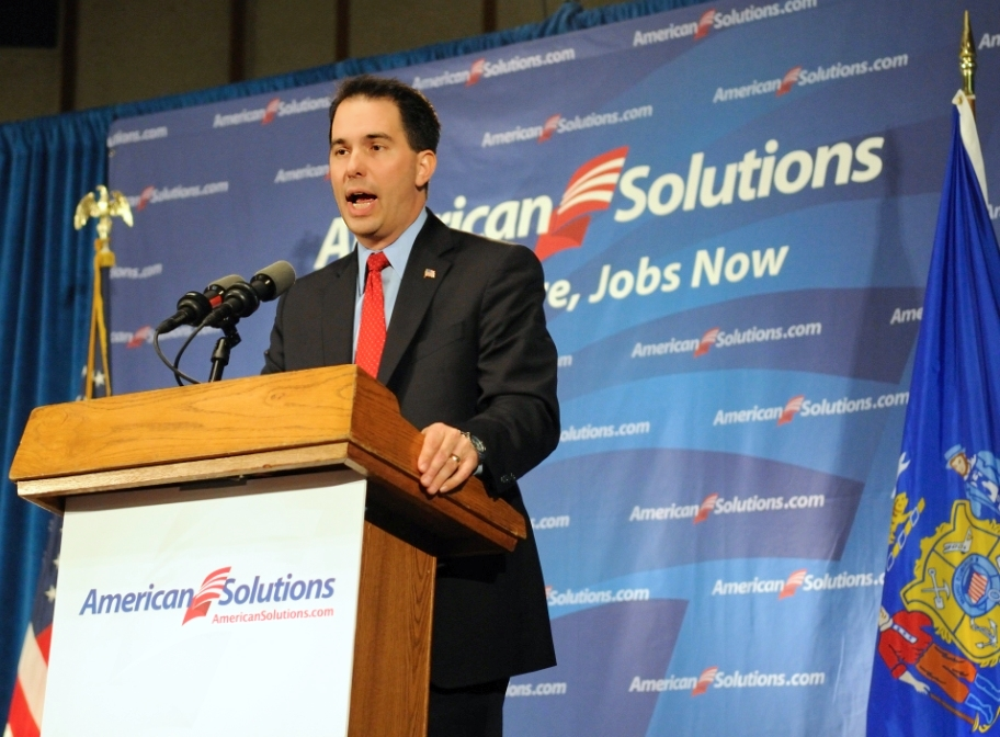 In office: April 30, 2002 – December 27, 2010